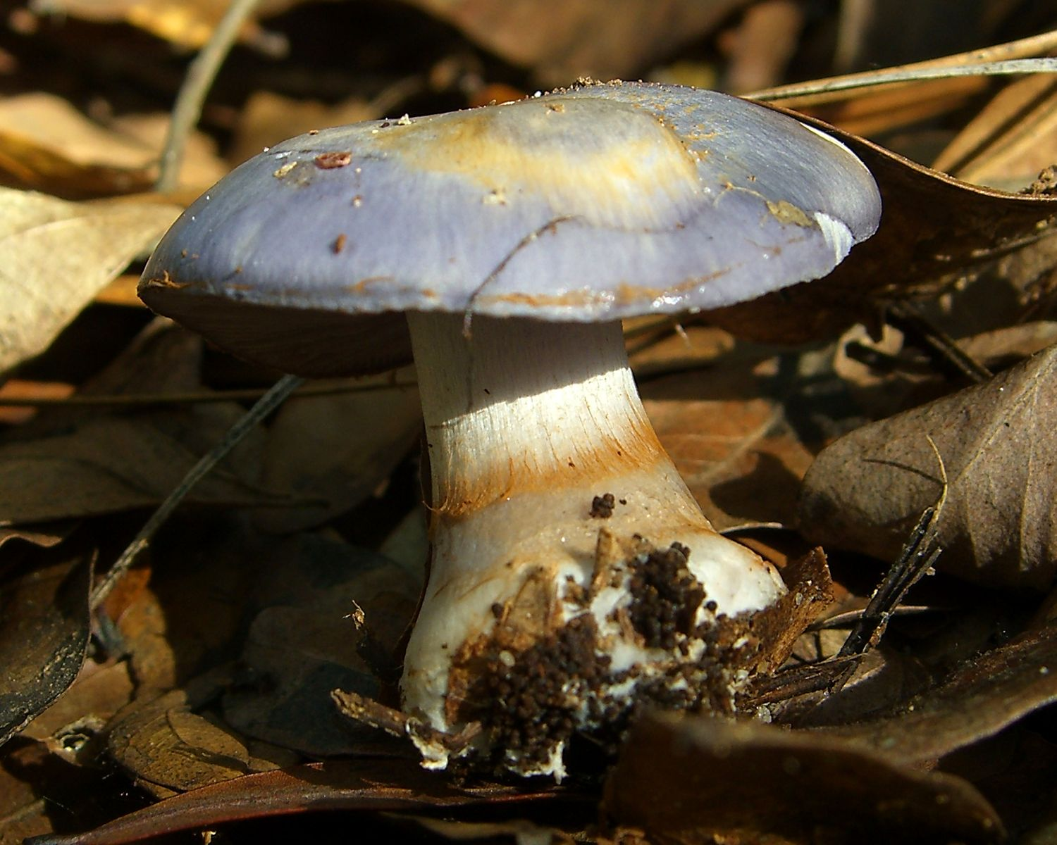 Scientific Name: Cortinarius iodes - Berk. & M.A. Curtis Common Name: Viscid Violet Cort Certainty: not sure ( notes ) Location: Florida Panhandle; Appalachicola NF Date: 20070110 Notice the dusting of spores near base -- this is very typical, and useful for determining spore print while in the field.